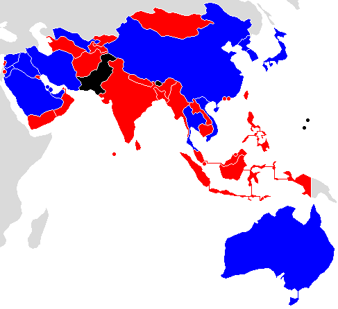 2020 AFC U23 Championship Qualified Teams Map